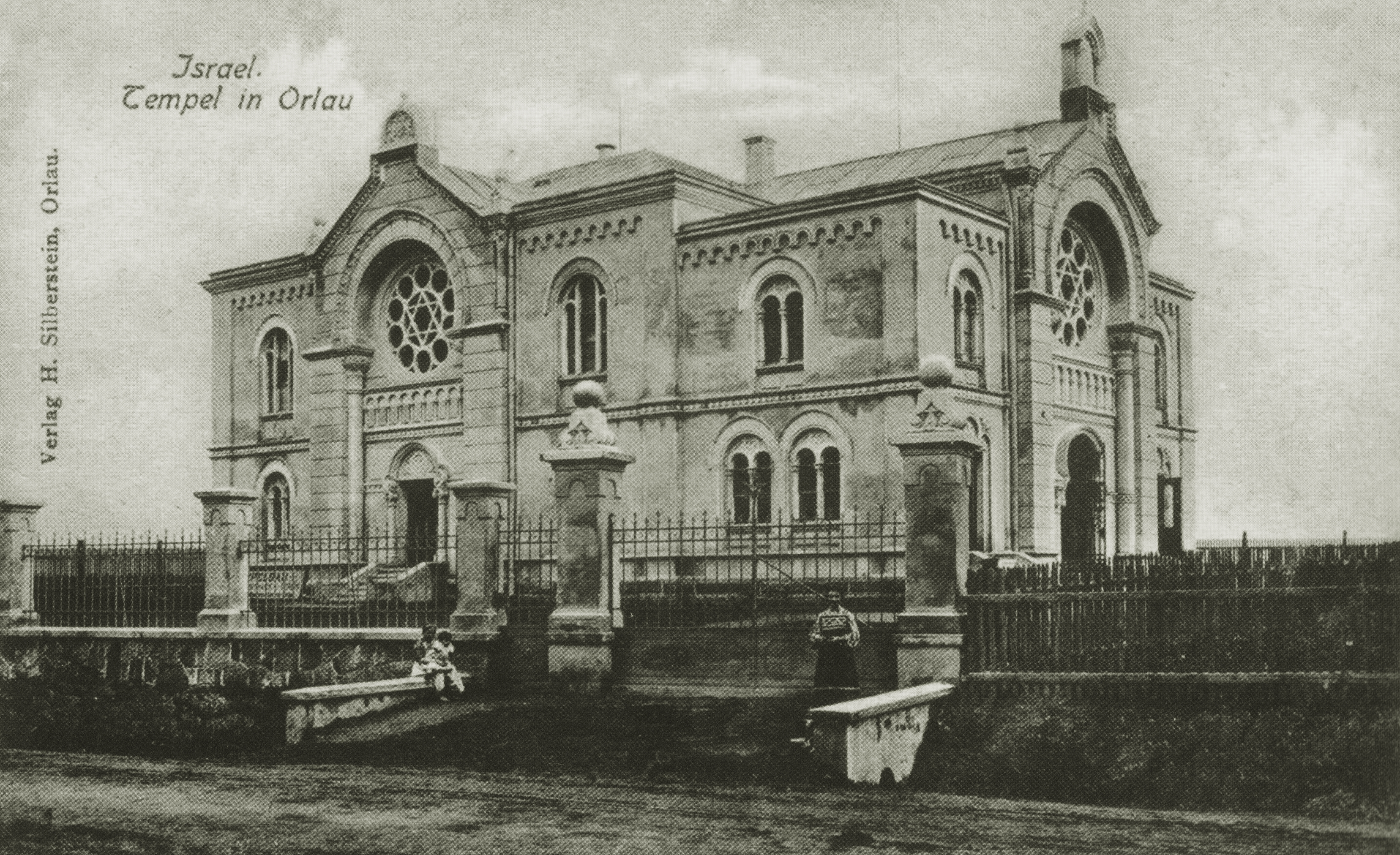 Orlova synagogue (Orlau) in Czechoslovakia, built in 1905 and destroyed by the Nazis in 1939. Postcard before construction of the tramway line